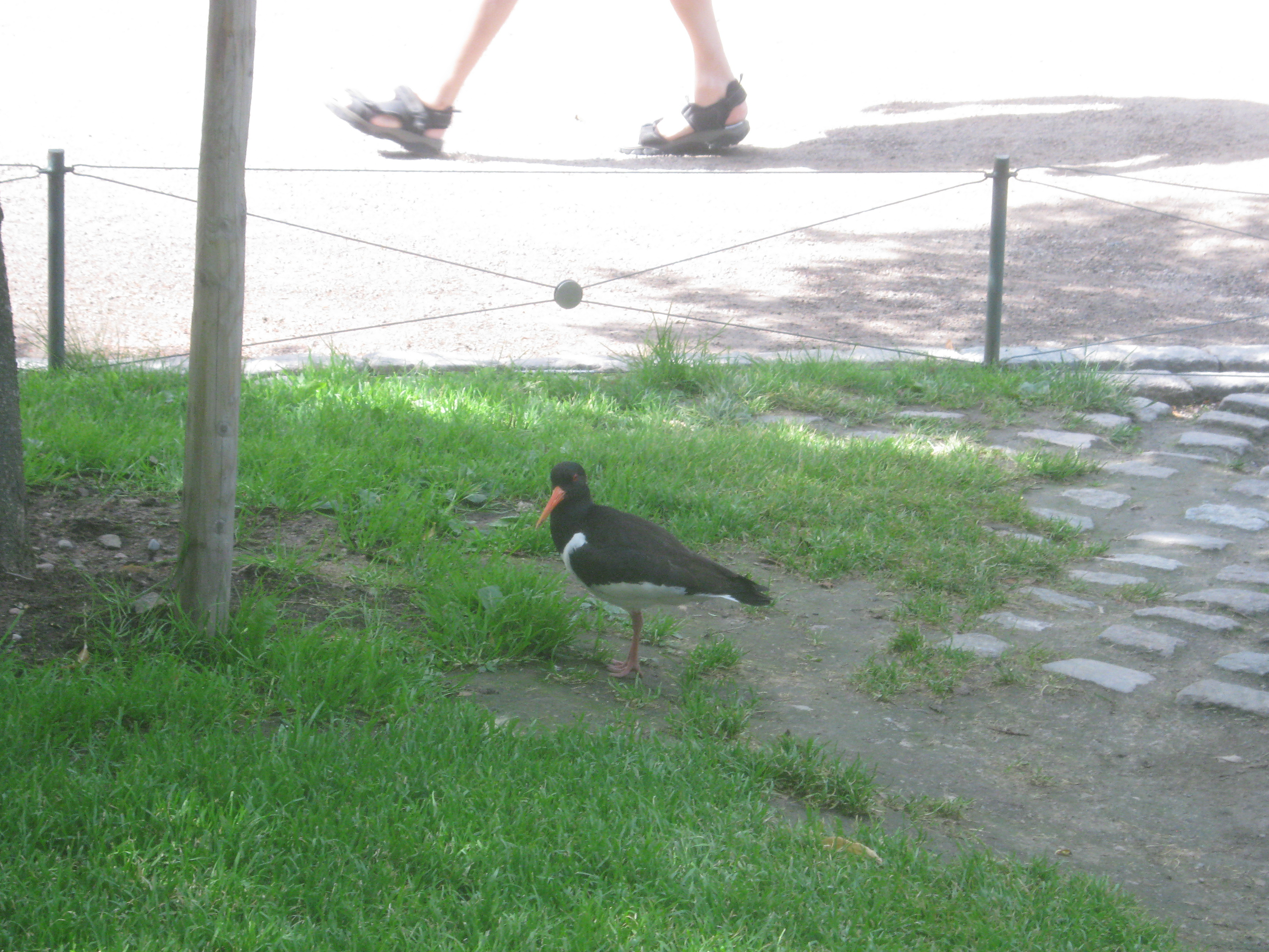 Oystercatcher in Helsinki